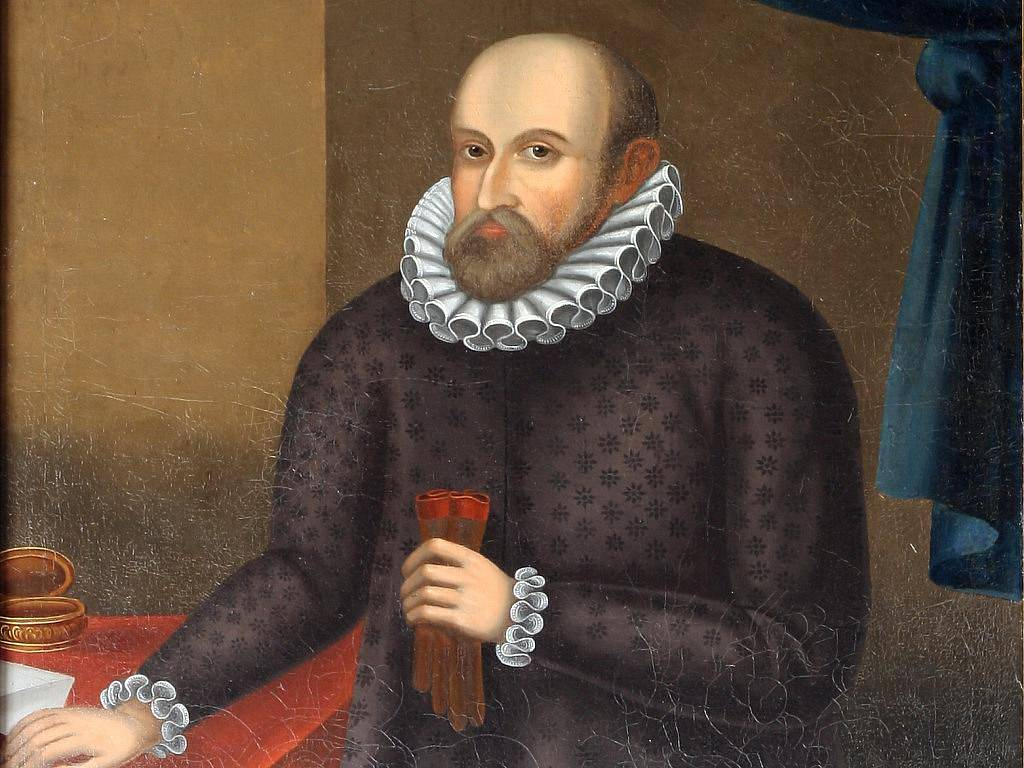 Adam II. z Hradce